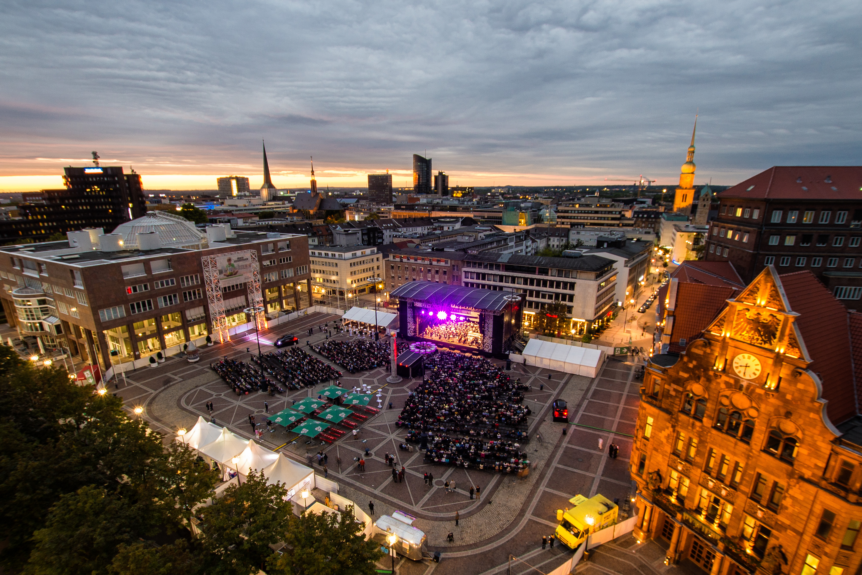 City Center of Dortmund, Freedom Square and Skyline